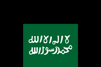 Emirate of Banu Murra in Arabia XX century